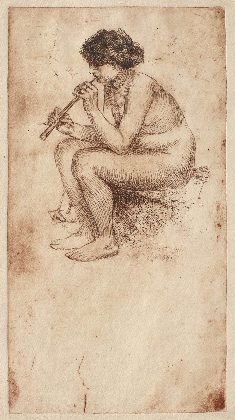 Nicolae Vermont - Nimfă cântând la fluier, acvaforte și acvatintă, 27 x 15,5 cm, semnat, datat și localizat, în cuvetă, Vermont, 1911, Munchen.